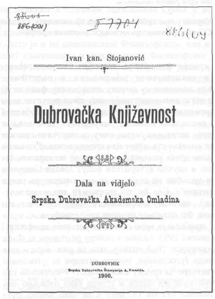 Dubrovačka književnost u izdanju Srpske dubrovačke akademske omladine.